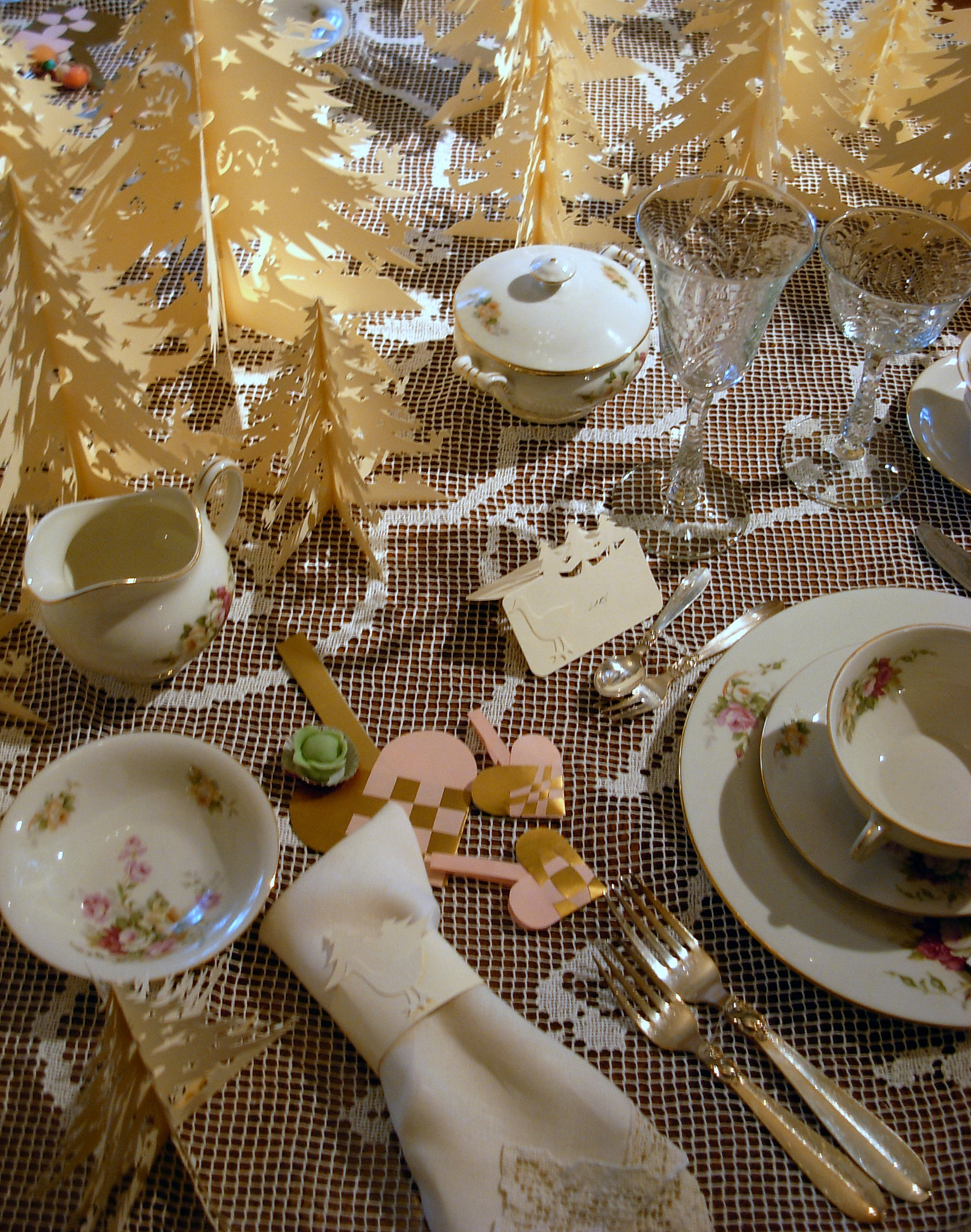 Danish paper cutting decorates a table for Christmas